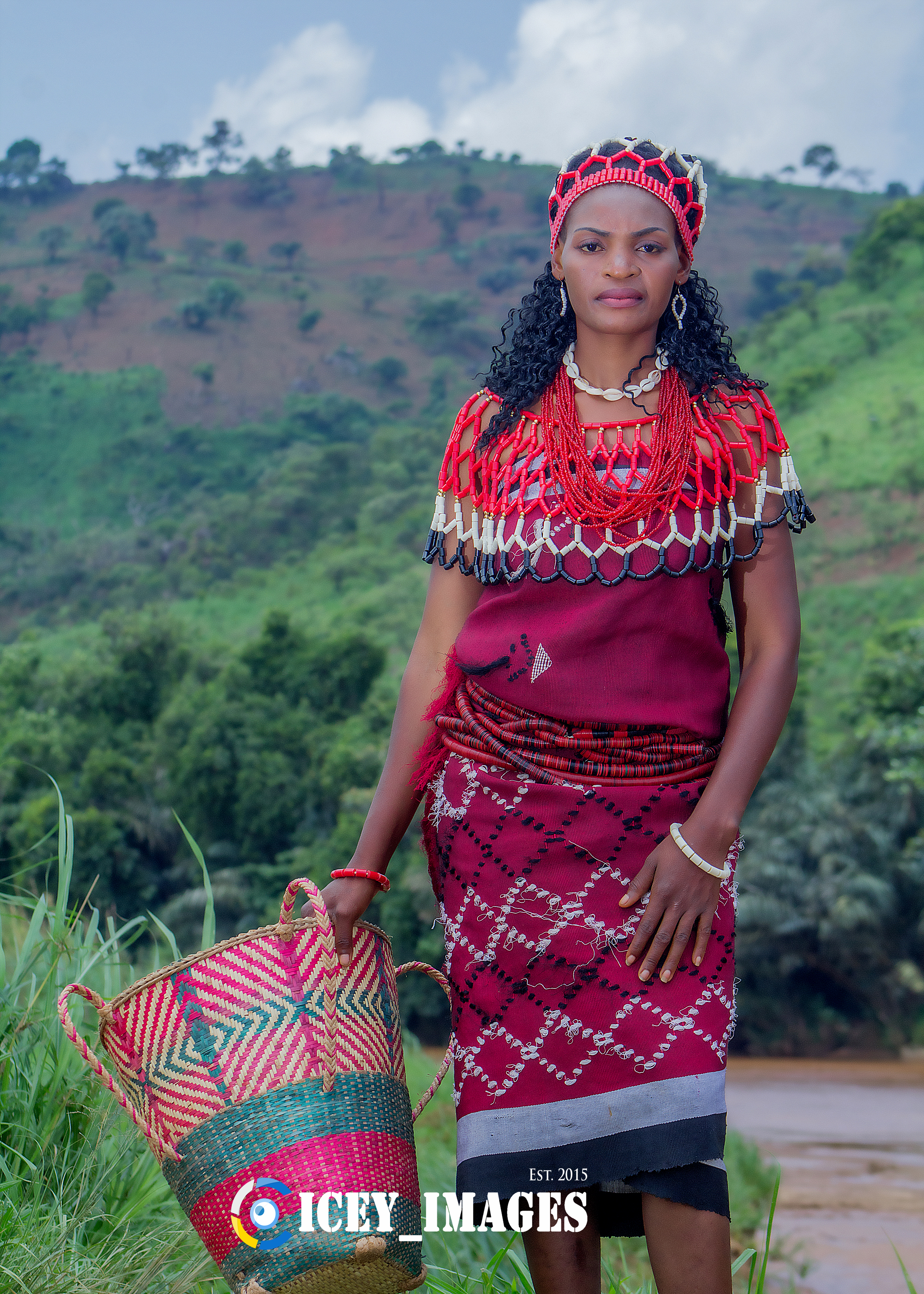 Yoruba